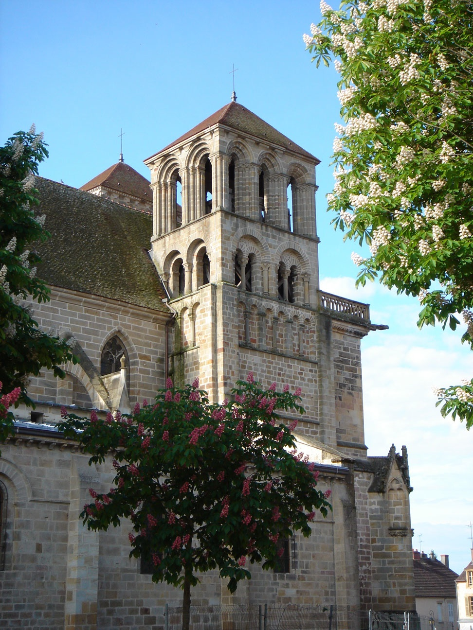 Souvigny church